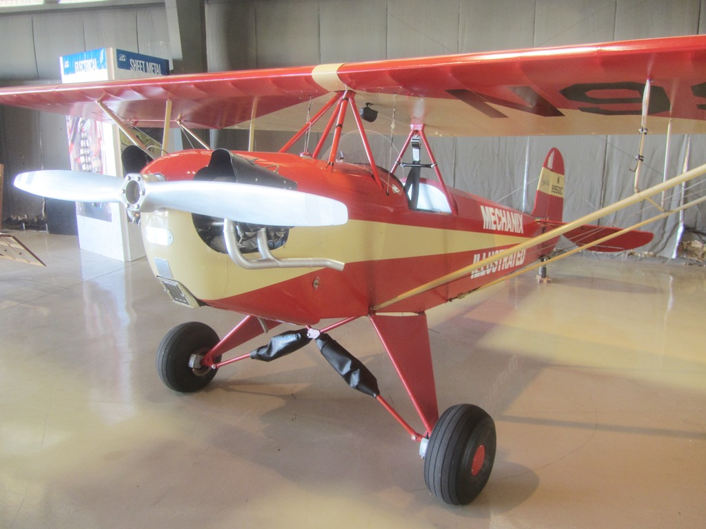 Baby Ace